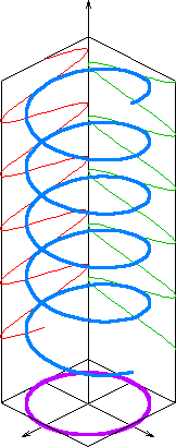 Circular polarization schematic